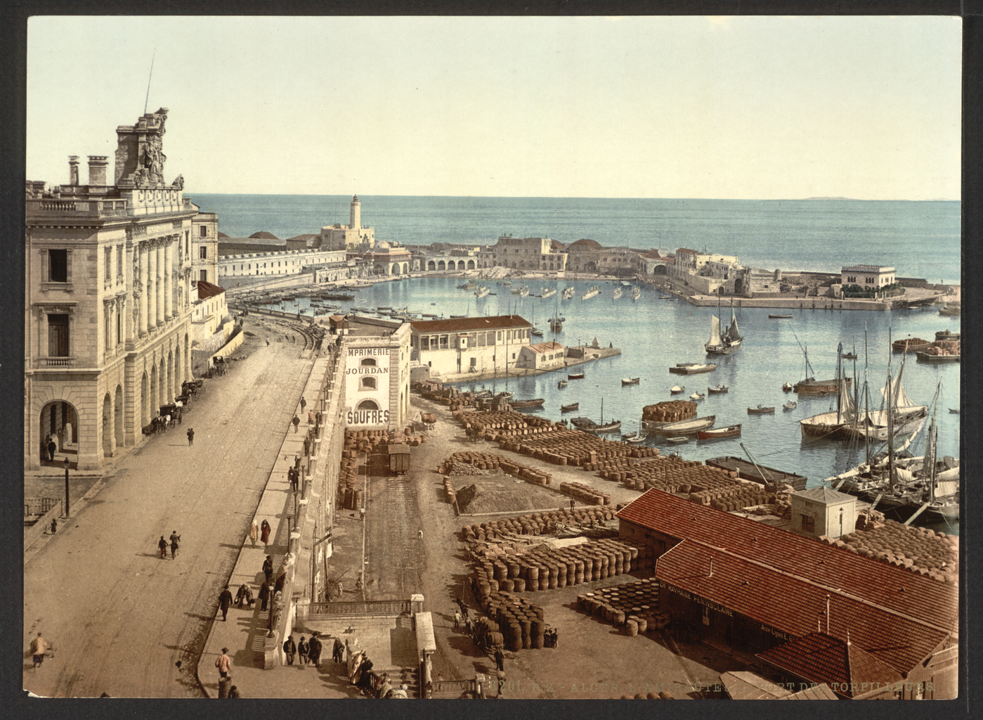 This photochrome print is from “Views of People and Sites in Algeria” in the catalog of the Detroit Photographic Company. It depicts Algiers's harbor, which had been redesigned and greatly expanded by the French in the late 19th and early 20th centuries. The Detroit Photographic Company was launched as a photographic publishing firm in the late 1890s by Detroit businessman and publisher William A. Livingstone, Jr. and photographer and photo-publisher Edwin H. Husher. They obtained the exclusive rights to use the Swiss "Photochrom" process for converting black-and-white photographs into color images and printing them by photolithography. This process permitted the mass production of color postcards, prints, and albums for sale to the American market. Cities and towns; Docks and ports; Harbors